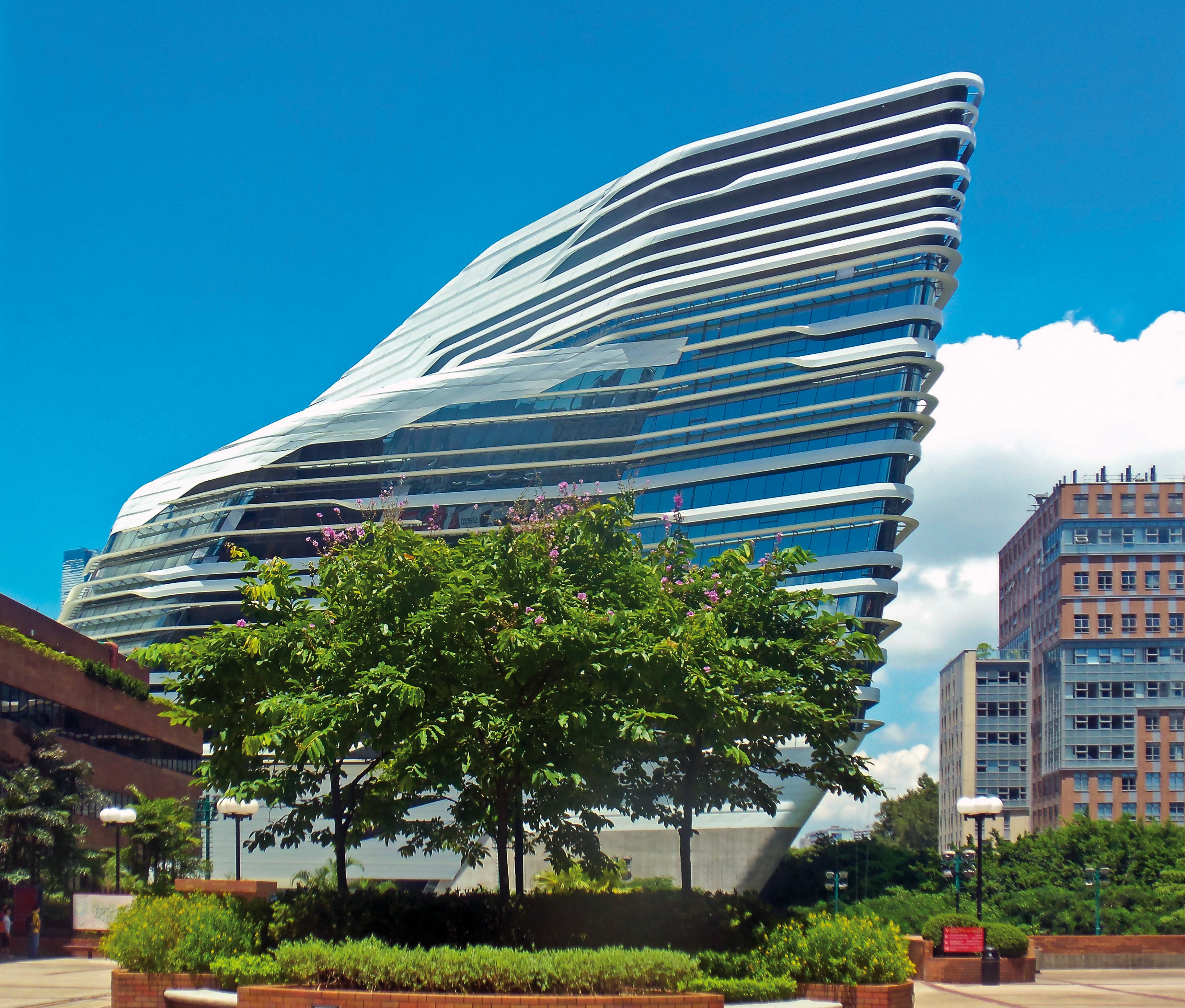 Innovation Tower, designed by Zaha Hadid, Hong Kong Polytechnic University, photographed on the last day of Wikimania 2013.